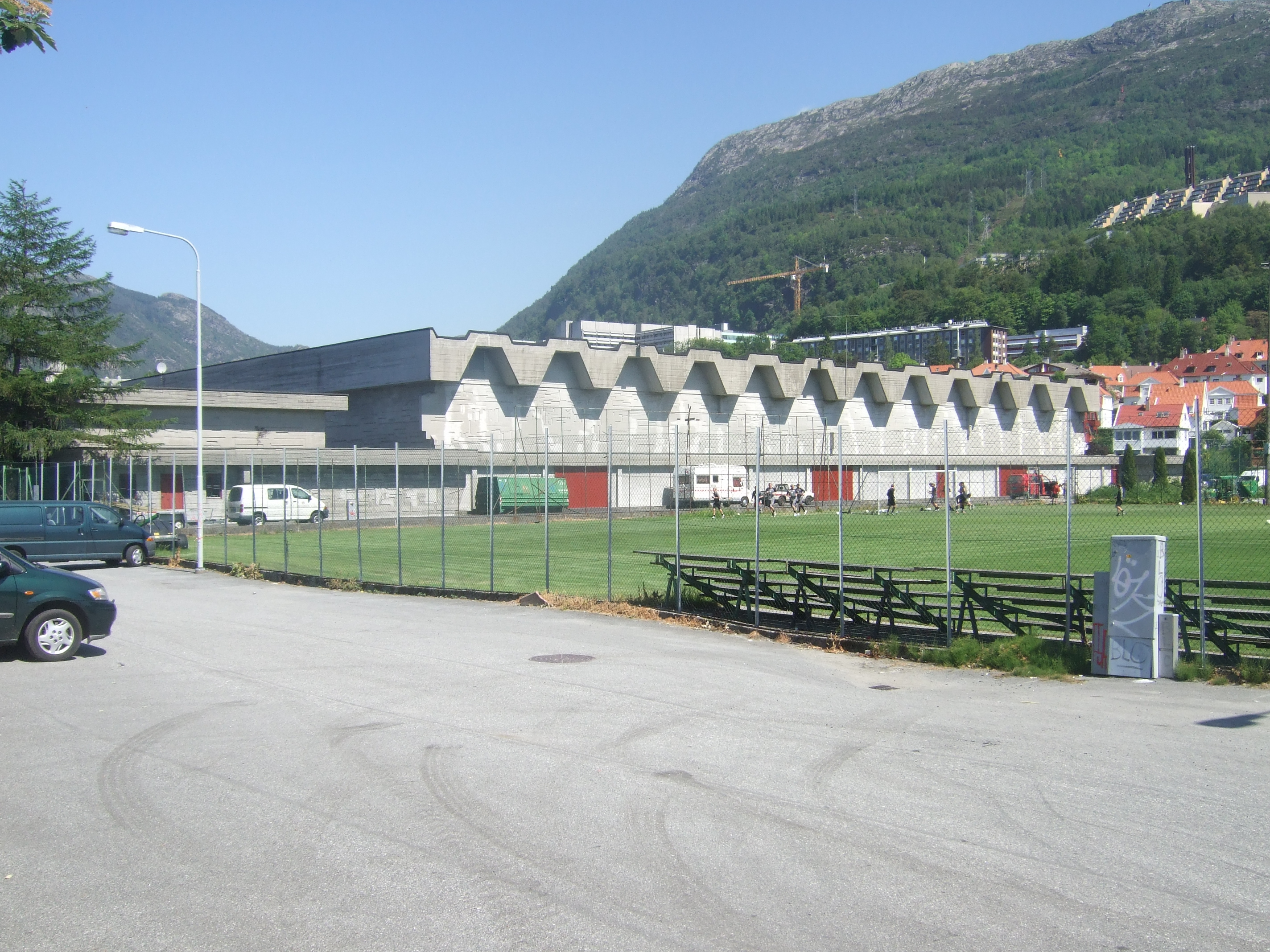 Haukelandshallen, Bergen (Norway)